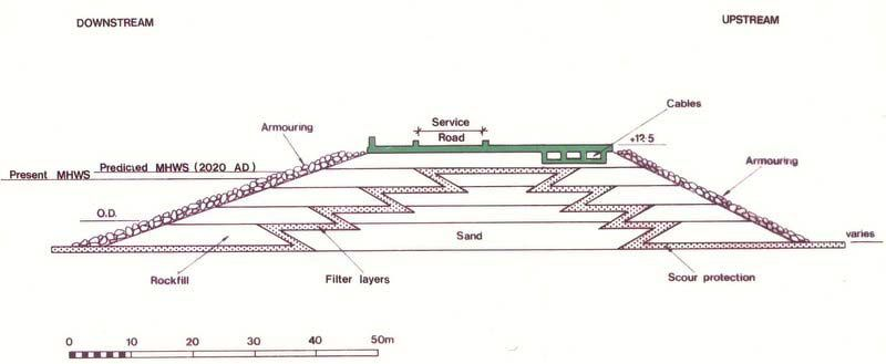 This image was sent to me by the author (Parsons Brinckerhoff) for web use.